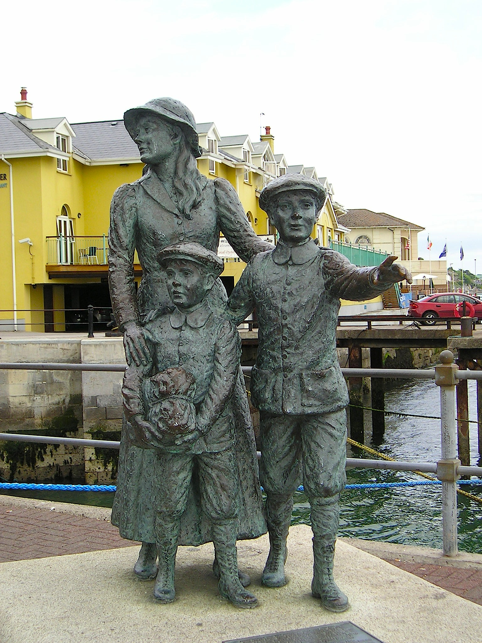 From Cobh waterfront. Text of plaque: "Annie Moore and her brothers Anthony and Philip embarked from this town on 20 December 1891 on the S.S. Nevada. Annie was the first person to be admitted to the United States of America through the new immigration centre at Ellis Island, New York on 1 January, 1892. This sculpture was unveiled by the President of Ireland, Mary Robinson, on 9 February, 1993. It was Erected by Cóbh Heritage Trust Ltd. and is dedicated to all who emigrated from Ireland." "This sculpture won the Zeneca Ireland Ltd. commemorative sculpture award. A statue of Annie Moore was also erected at Ellis Island, New York. The commemoration of Annie Moore at New York and at Cóbh was initiated by the Irish American Cultural Institute." "This sculpture is the work of Jeanne Rynhart of Bantry."